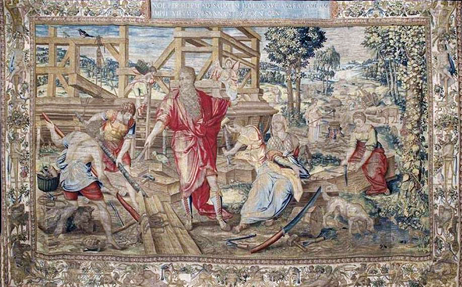 Construction of the Ark. Series History of Noah.